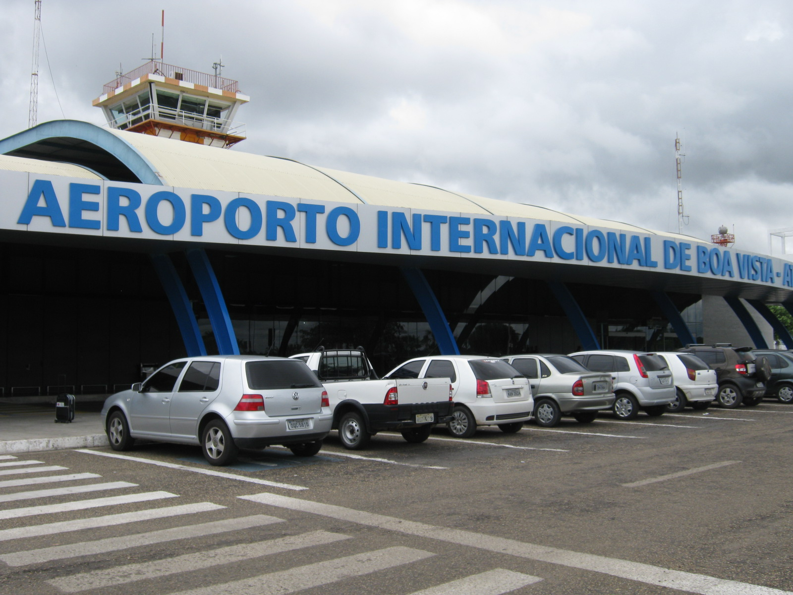 Facade of the Boa Vista-Atlas Brasil Cantanhede International Airport, in Boa Vista, Roraima, Brazil.